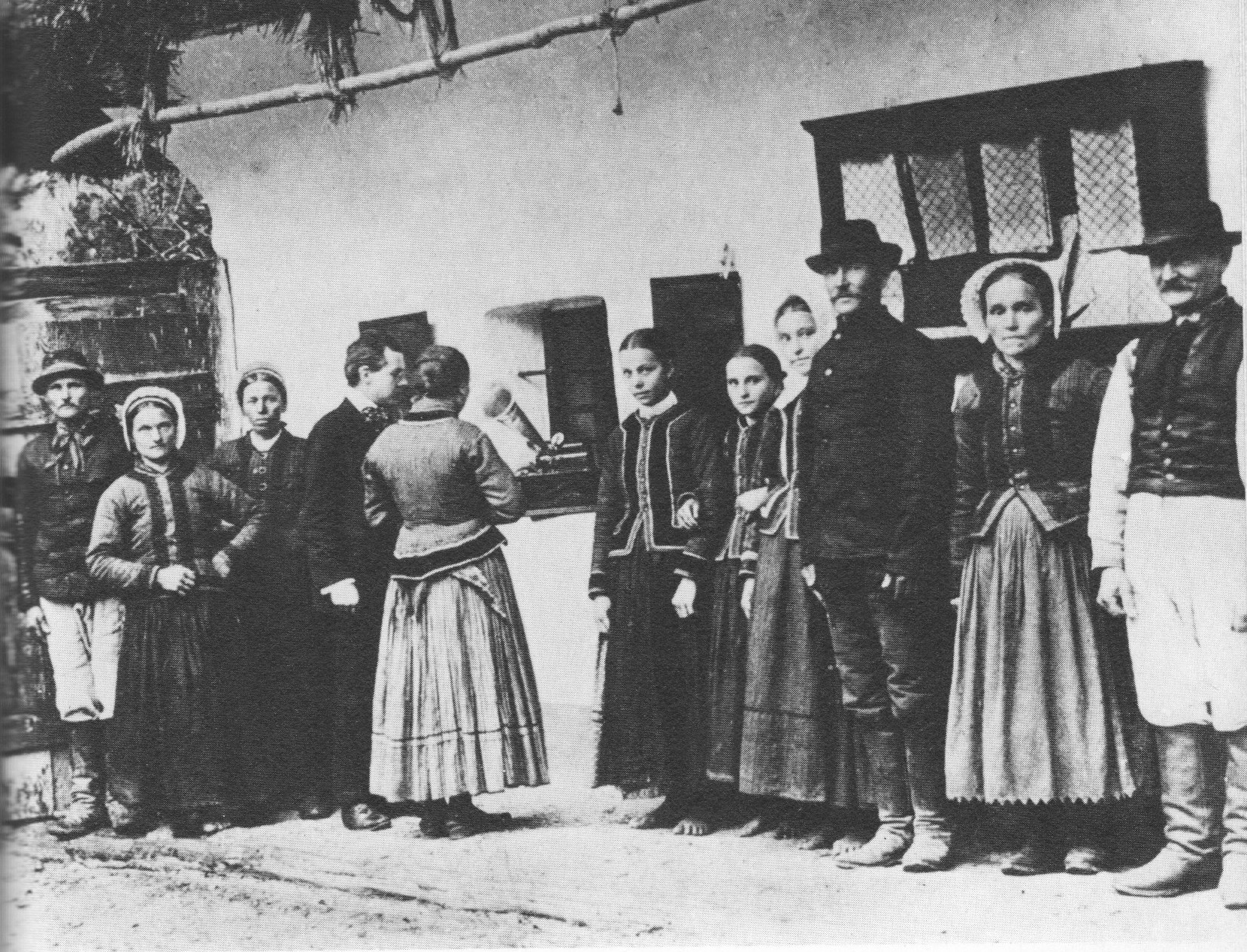 Bela Bartok using a gramaphone to record folk songs sung by Slovak peasants.